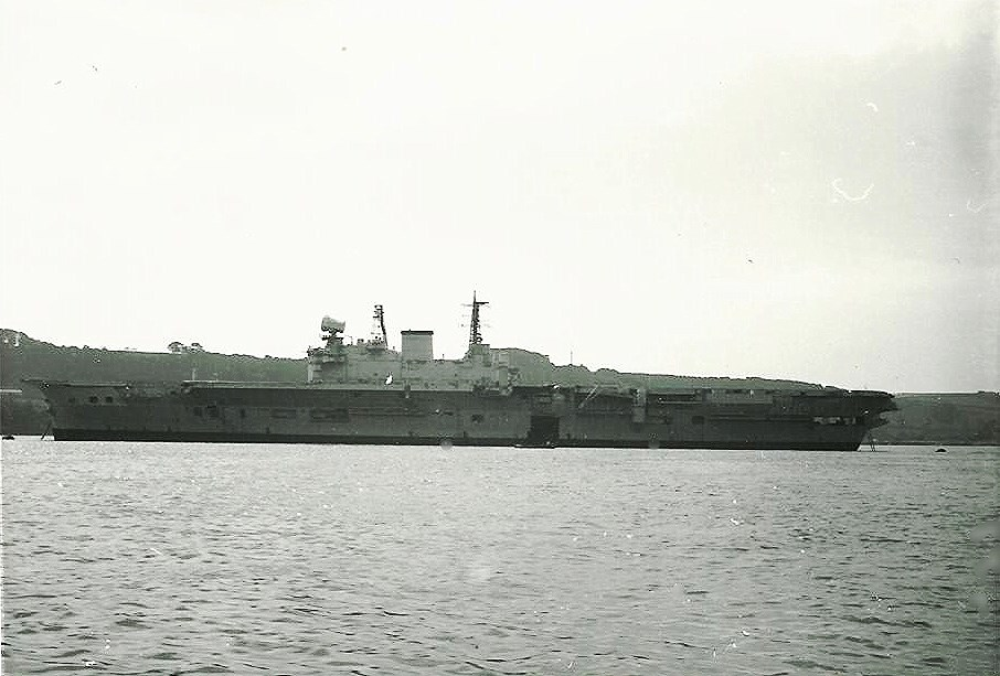 "Audacious" Class Aircraft Carrier "HMS Eagle", 43,340 tons, launched 1946, completed 1951. At the Plymouth Navy Day, Devonport Dockyard, 08/77.